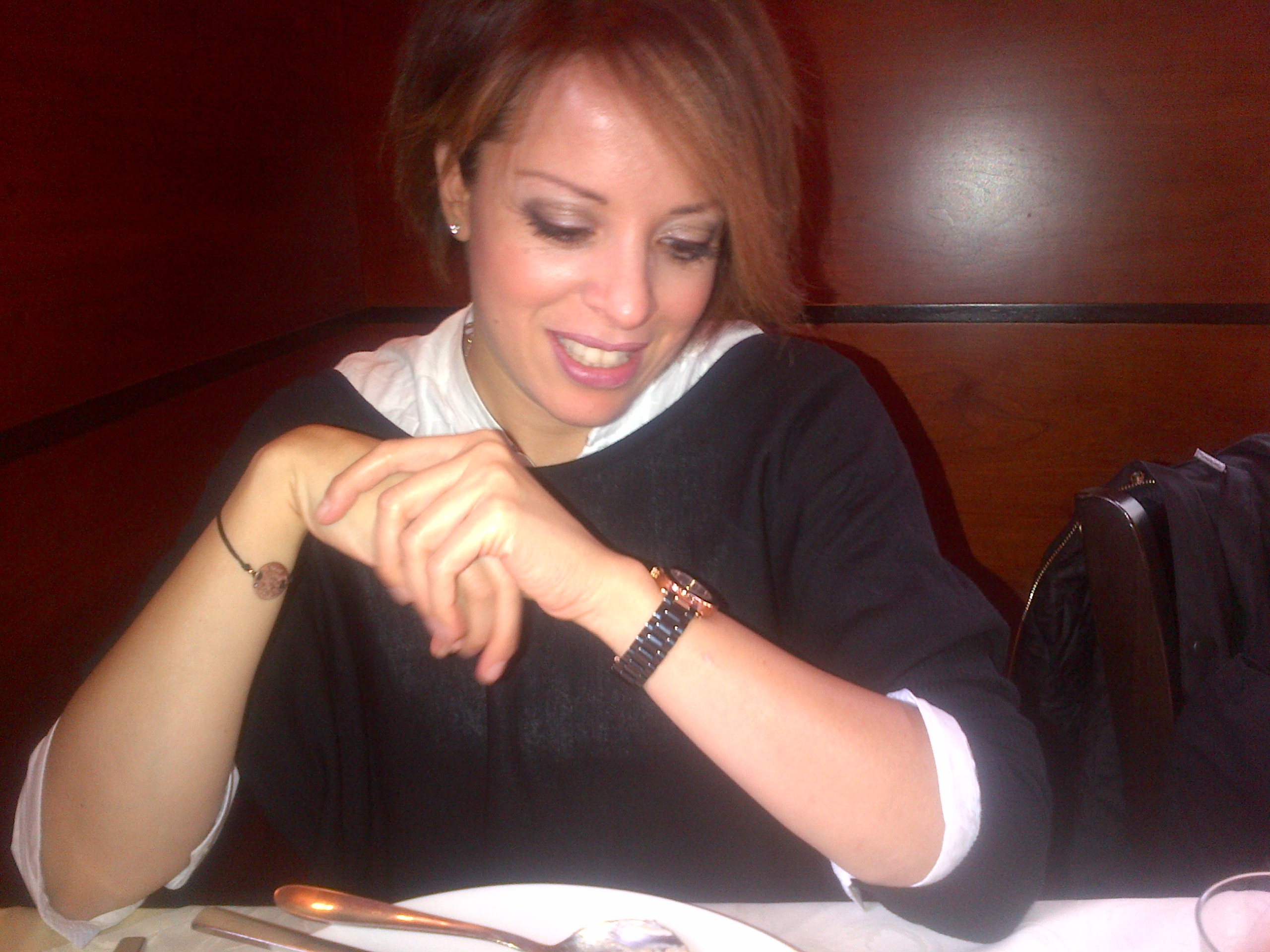 Turkish Cypriot concert pianist Rüya Taner. She is a citizen of both Turkey and the Turkish Republic of Northern Cyprus.